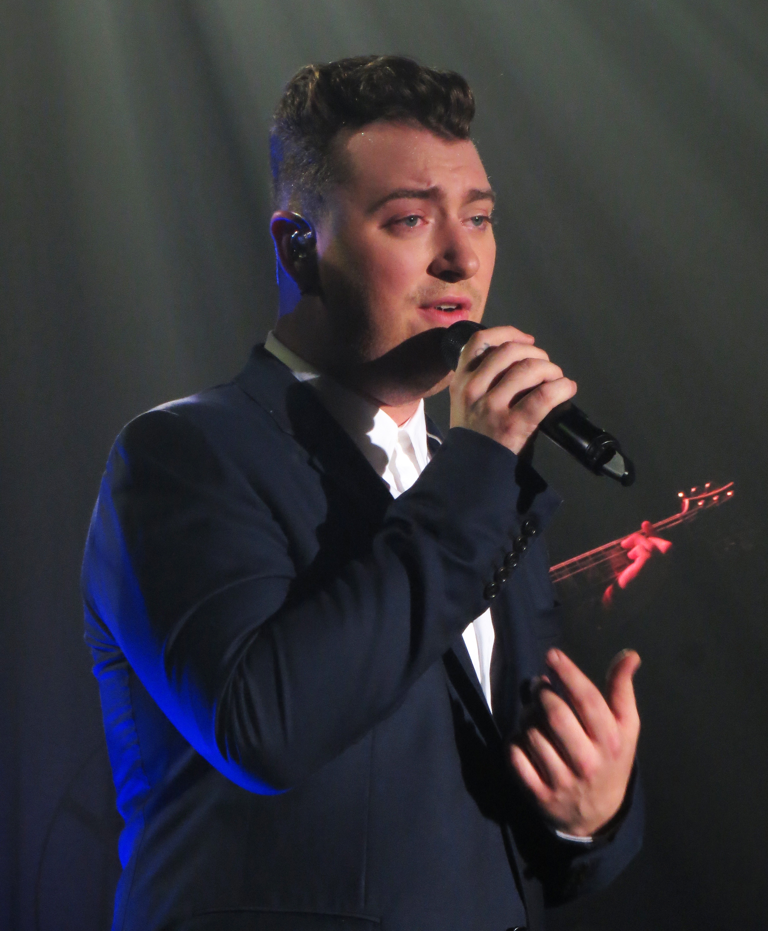 Sam Smith Oct 23, 2014 at O2 ABC, Glasgow, UK.